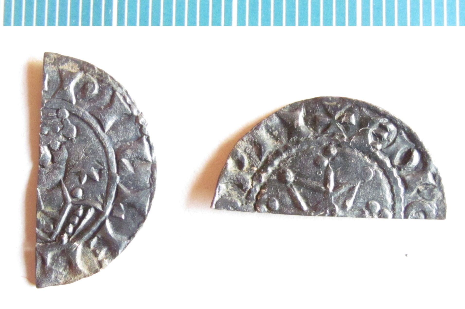 Silver cut halfpenny of William I, Two stars type, moneyer probably Edwold of Norwich, North 845, weight 0.53g, c.1074-7